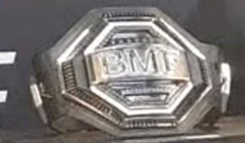 UFC 244 Post Fight Presser With Jorge Masvidal